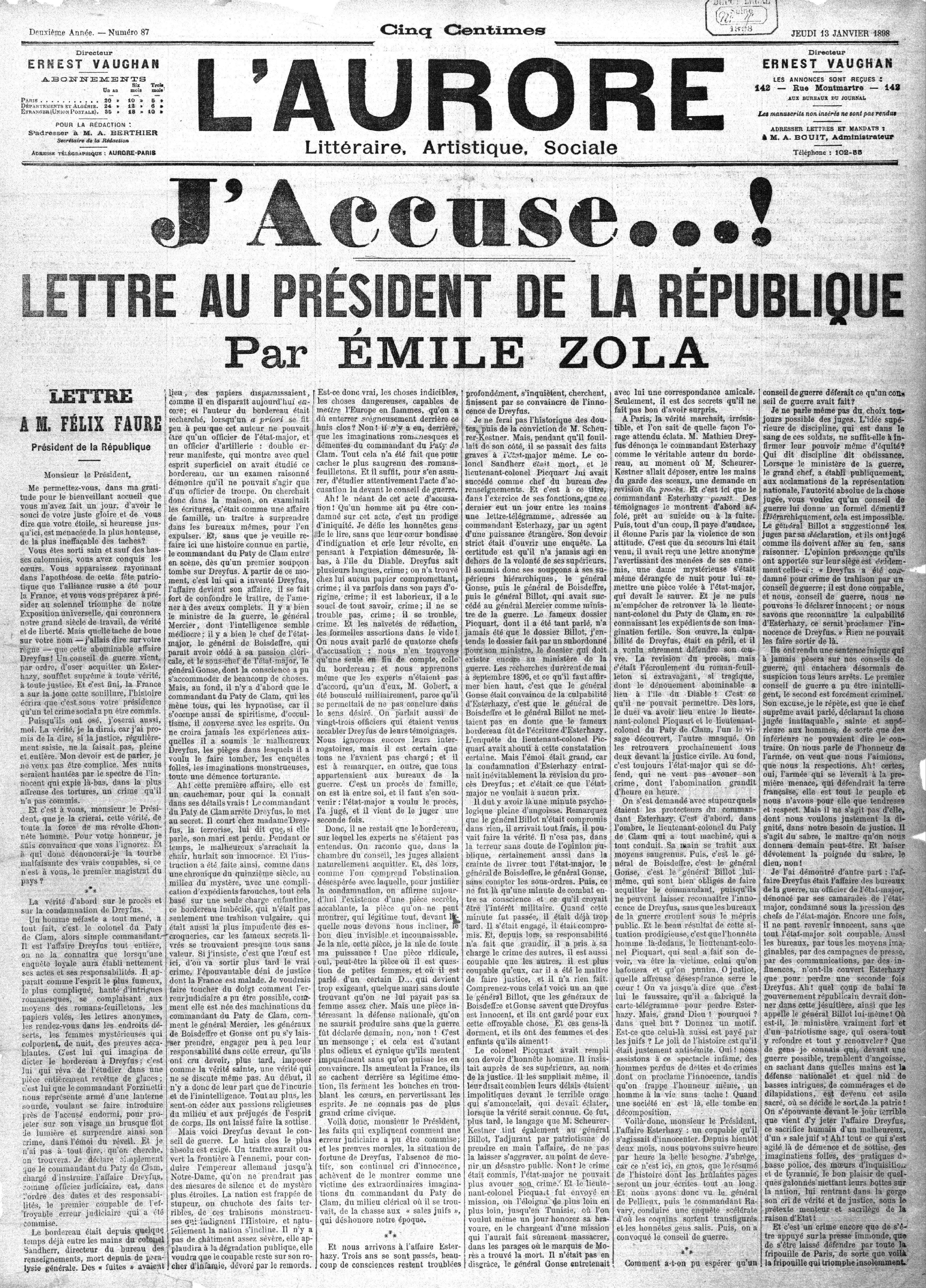 Front page cover of the newspaper L’Aurore of Thursday 13 January 1898, with J’accuse...!, the open letter written by Émile Zola to president Félix Faure about the Dreyfus affair. The headline reads "I accuse...! Letter to the President of the Republic".